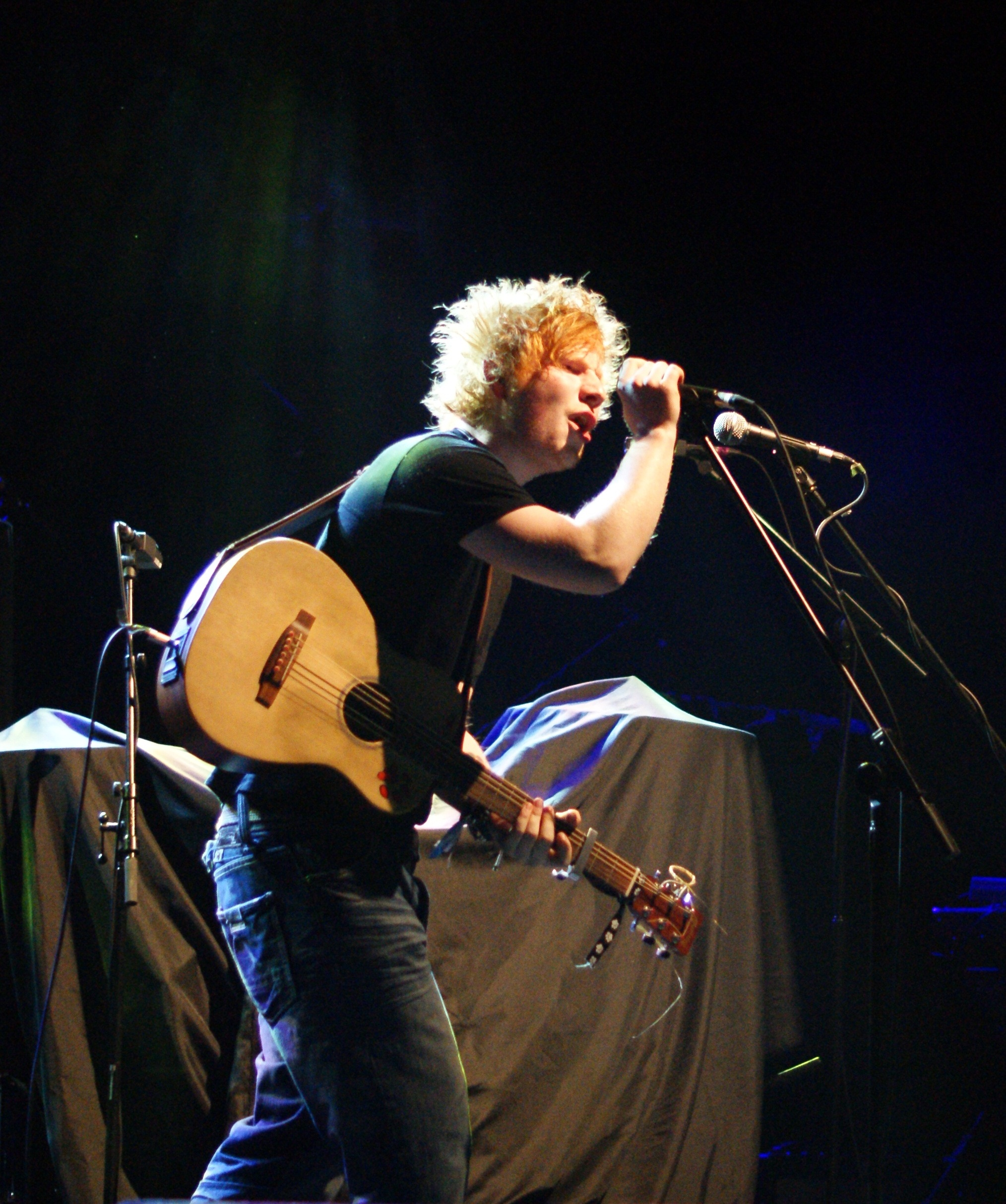 Ed Sheeran at Academy 1, Manchester, as part of the Dot to Dot Festival on Monday the 30th of May 2011